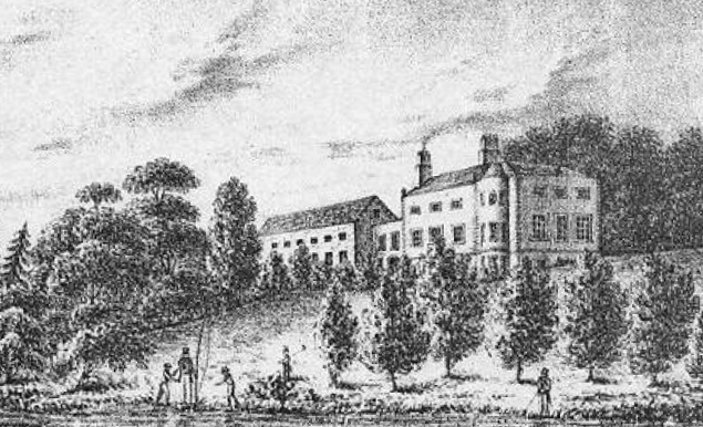 Lithograph of the Claremont Institution in Dublin, 1820.